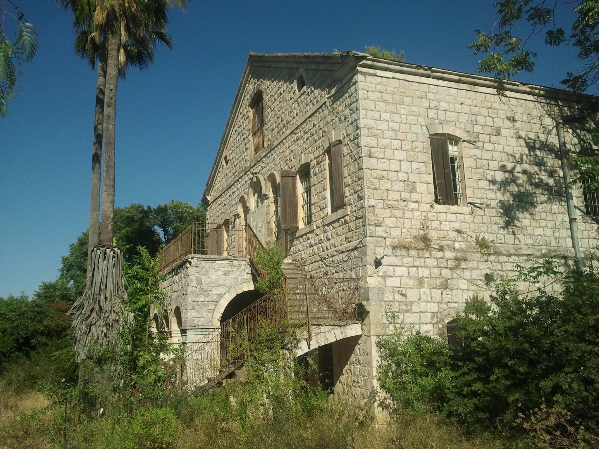 The Glitzstein Museum